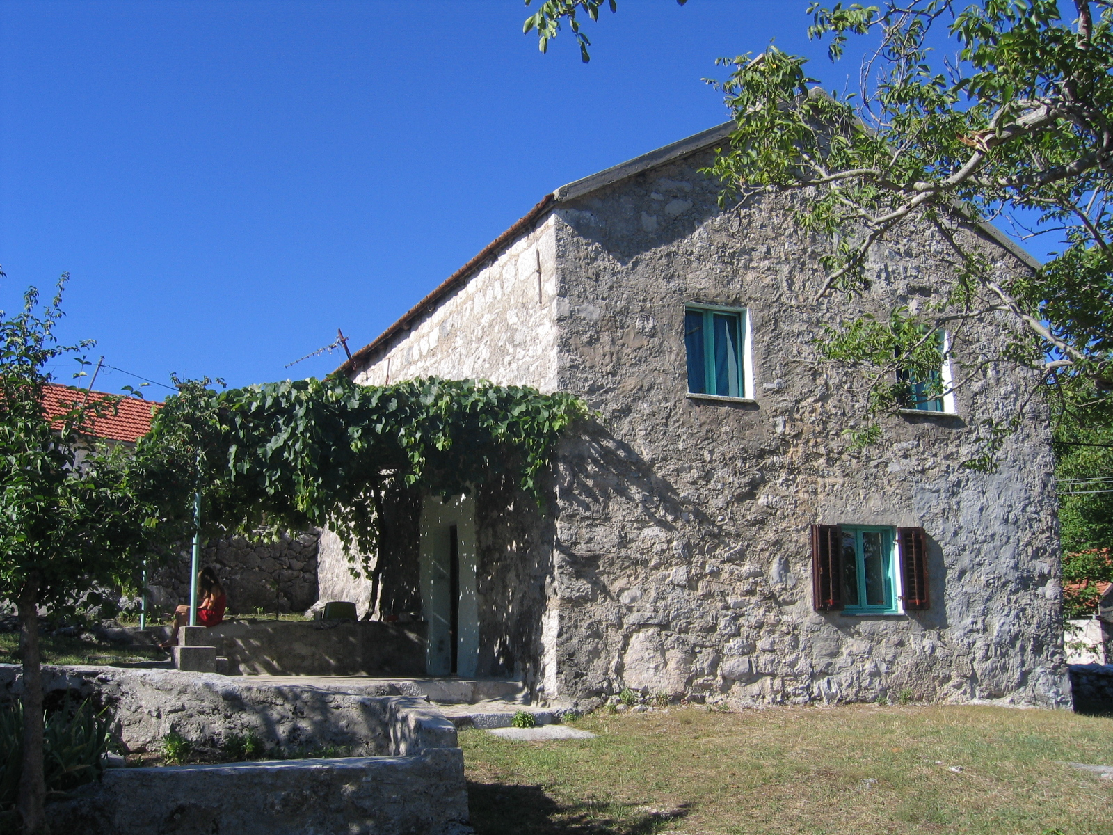 Old village house in Gornje Vrbno near Trebinje, Herzegovina